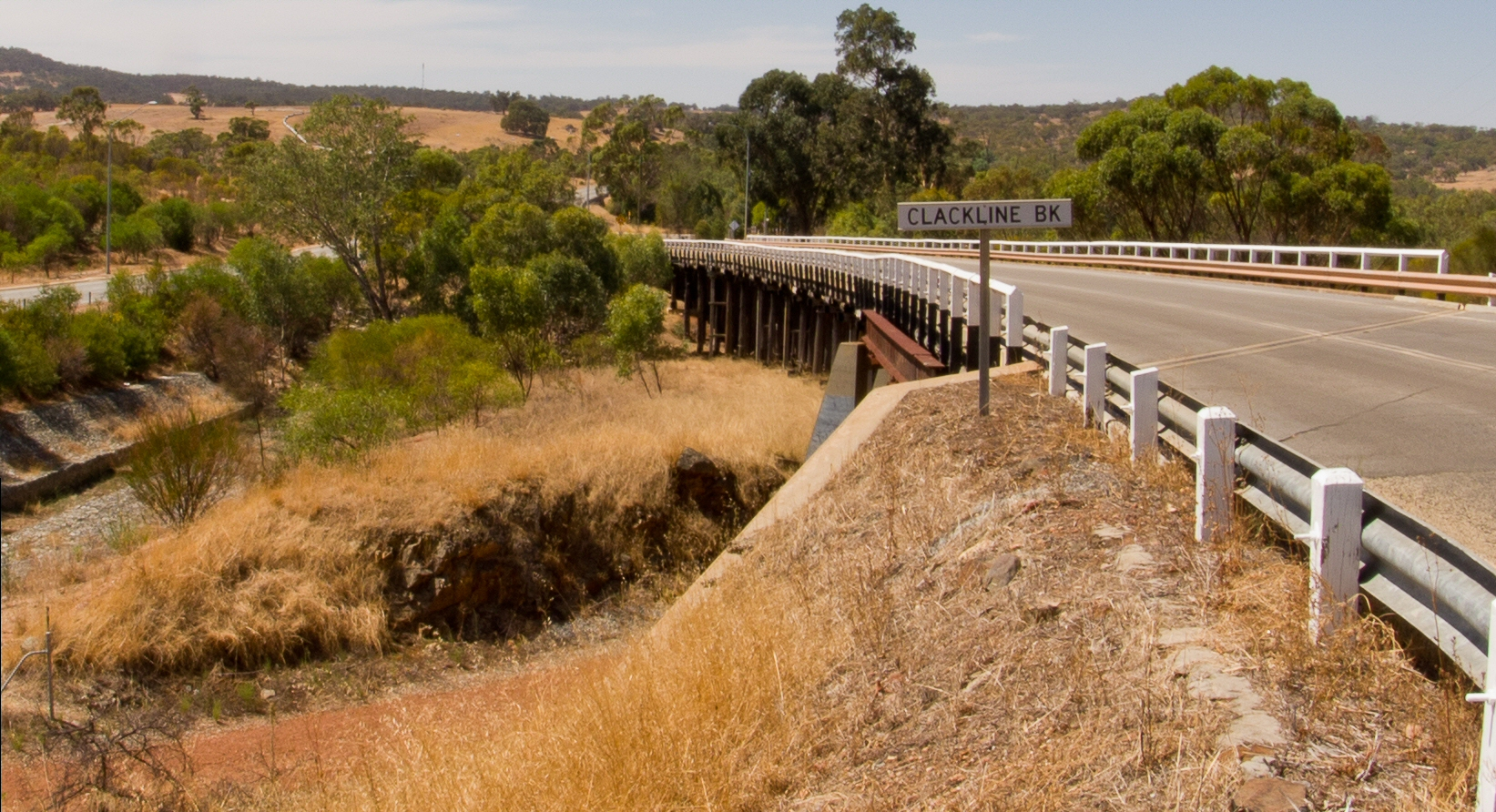 Cropped view of Clackline Bridge. Also visible is the current alignment of Great Eastern Highway, and the gravel path which the former rail line followed.